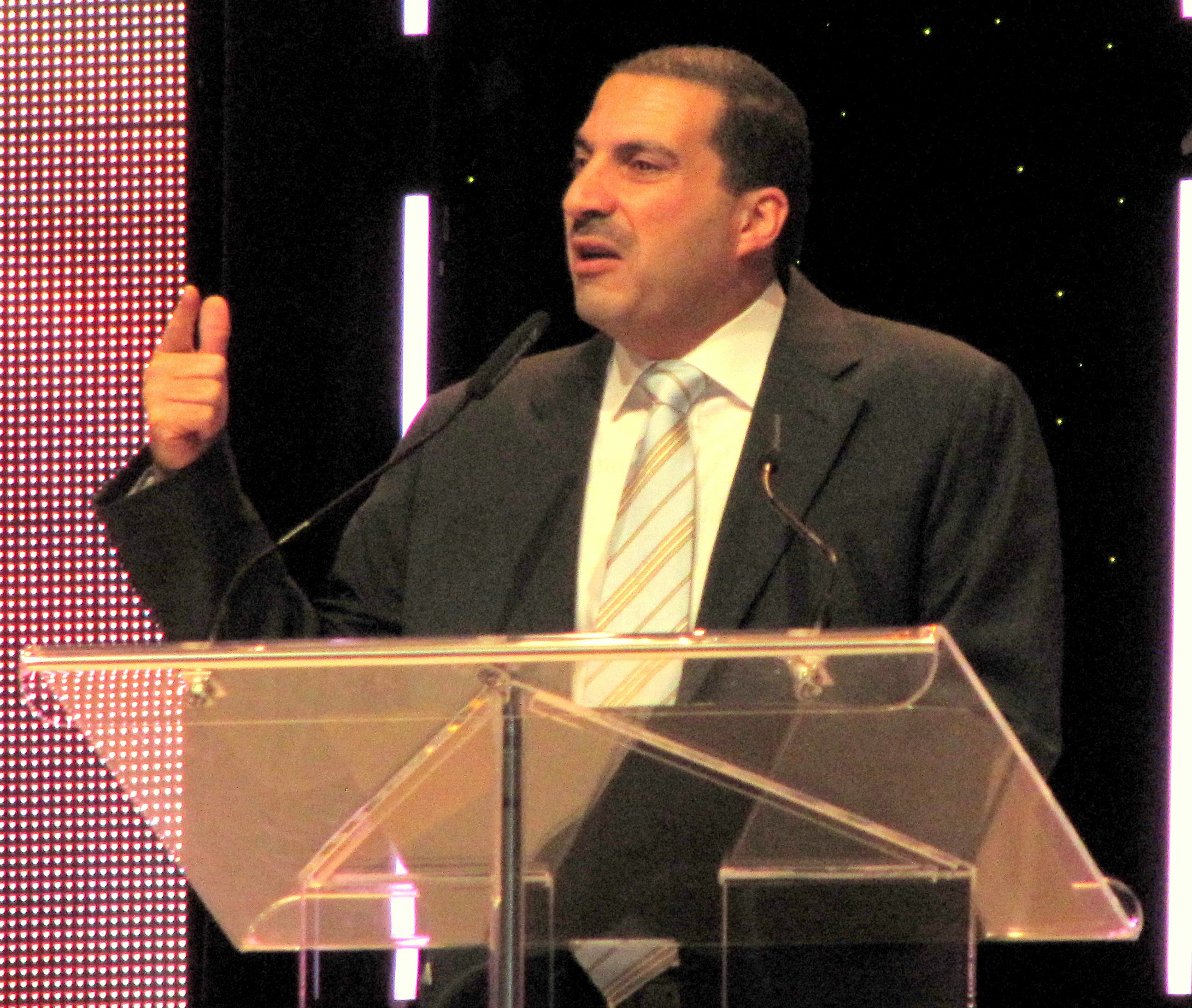 Amr Khaled giving a lecture at Reviving the Islamic Spirit convention, Toronto